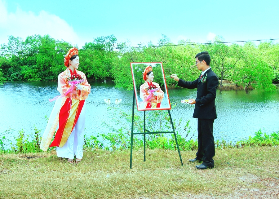 Ha Coc Scenery (in Mai Xa Village)